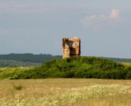 Sălard, Bihor